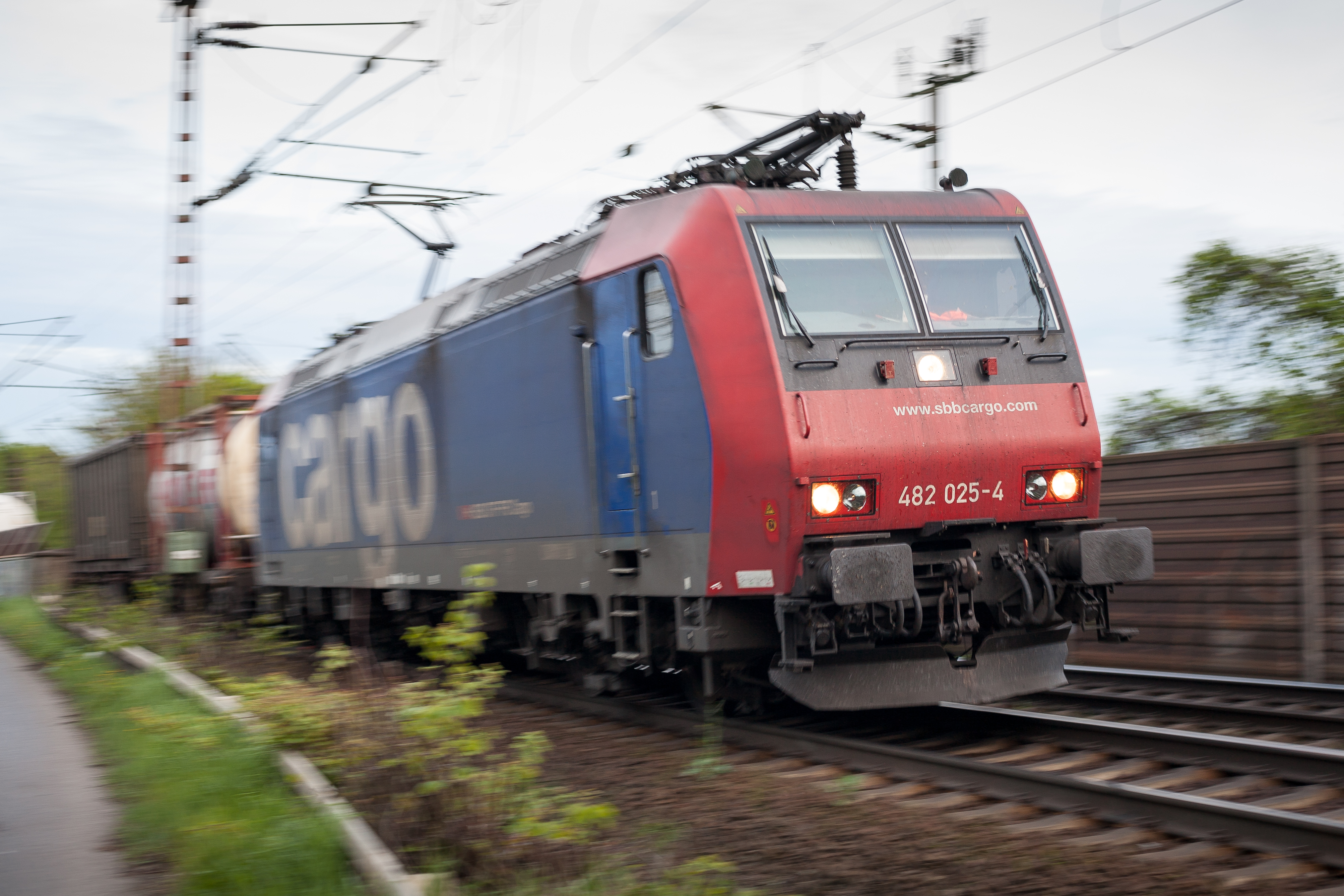 SBB Cargo class Re 482 no. 25 with a freight train at Bornum district in Hanover, Germany.